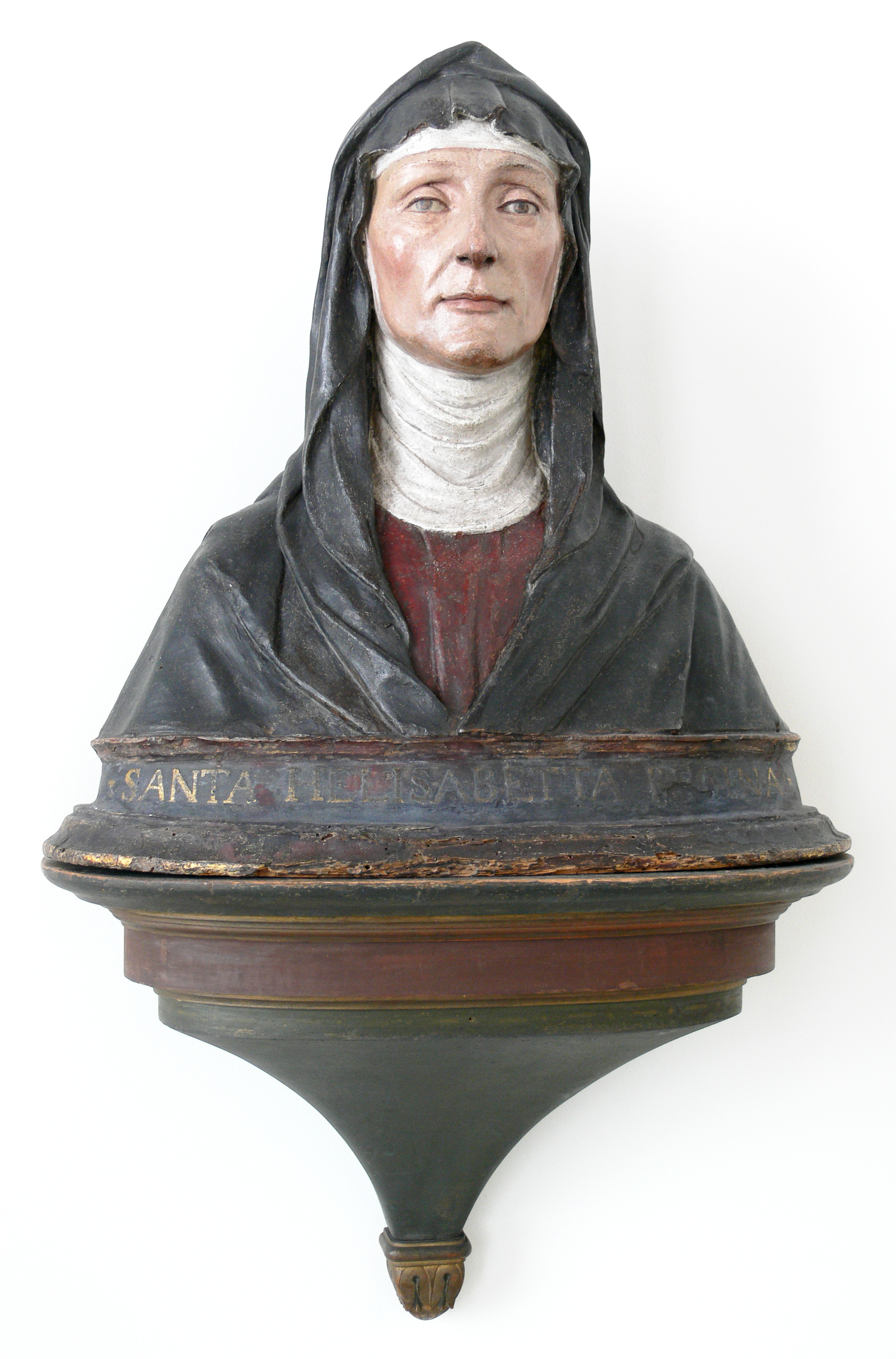 Matteo Civitali (?): Saint Elisabeth (?), Tuscany, burned terracotta, old colours; the inscription is not original. Skulpturensammlung (Inv. no. 1575, donated in 1889 by Alfred Beit), Bode-Museum Berlin.